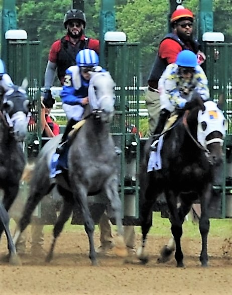 Mohaymen breaks awkwardly in the 2016 Jim Dandy at Saratoga race track